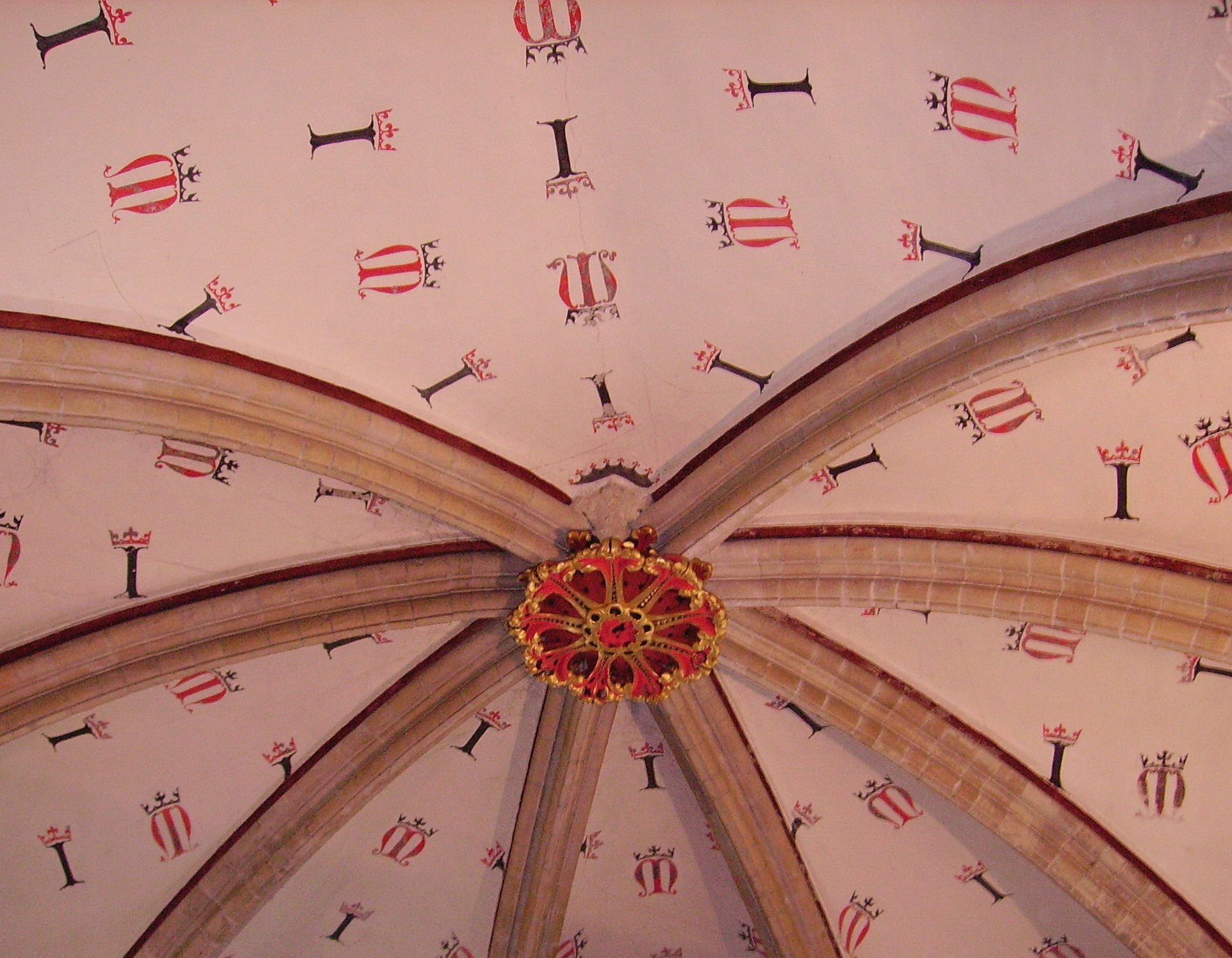 inside of Canterbury Cathedral in Canterbury; United Kingdogm